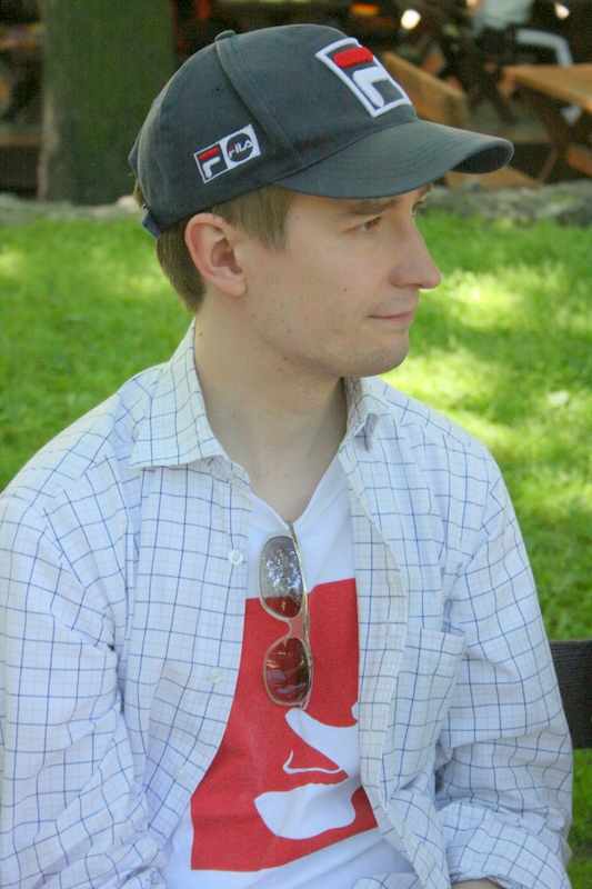 Oras Tynkkynen, a Finnish green politician, at Riga Pride and Friendship Days 2007